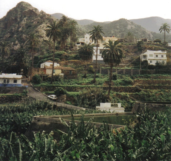 View of Vallehermoso